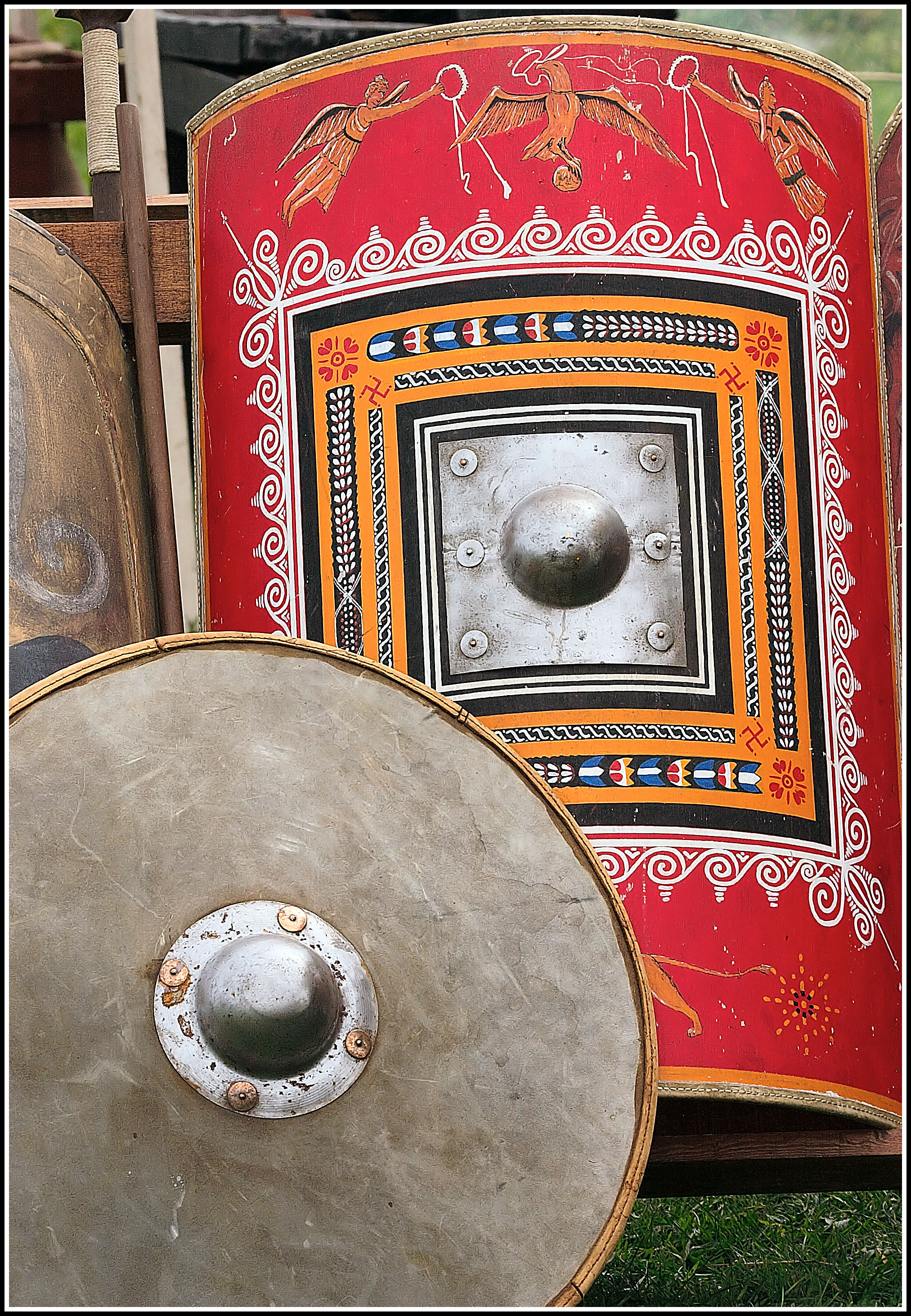 Image taken at the display of Roman Army Tactics Scarborough Castle Aug-07